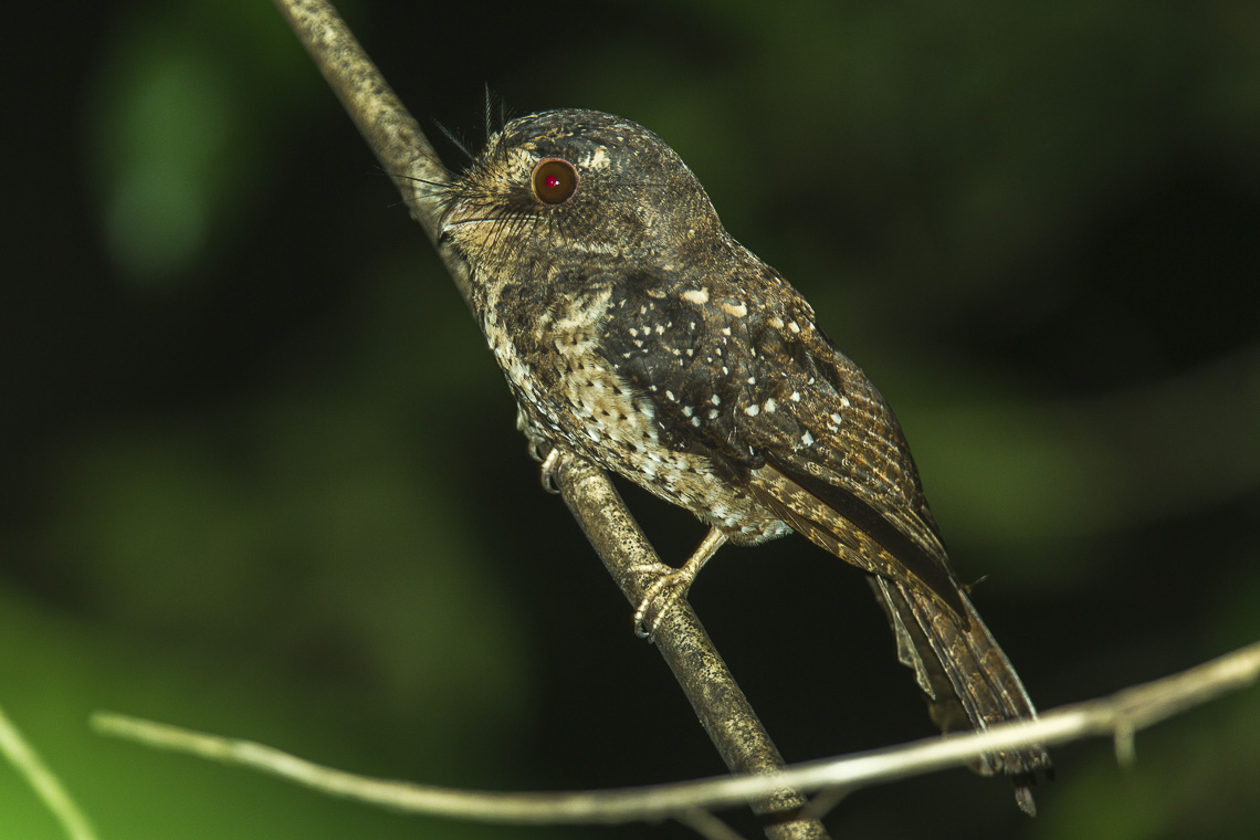 Moluccan Owlet-nightjar (Aegotheles crinifrons)